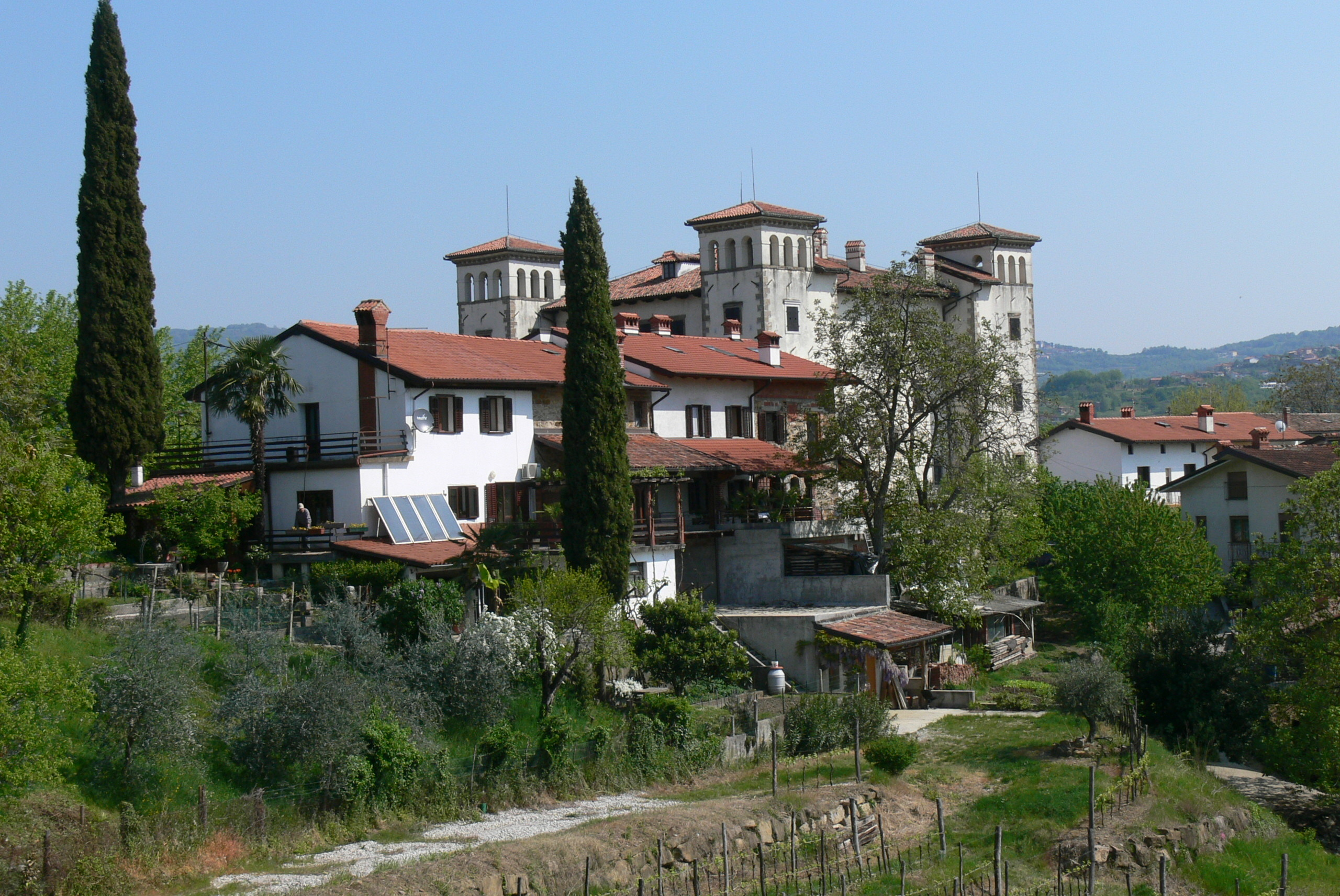 Dobrovo ( Brda, Slovenia ). Renaissance castle ( 1600 ).